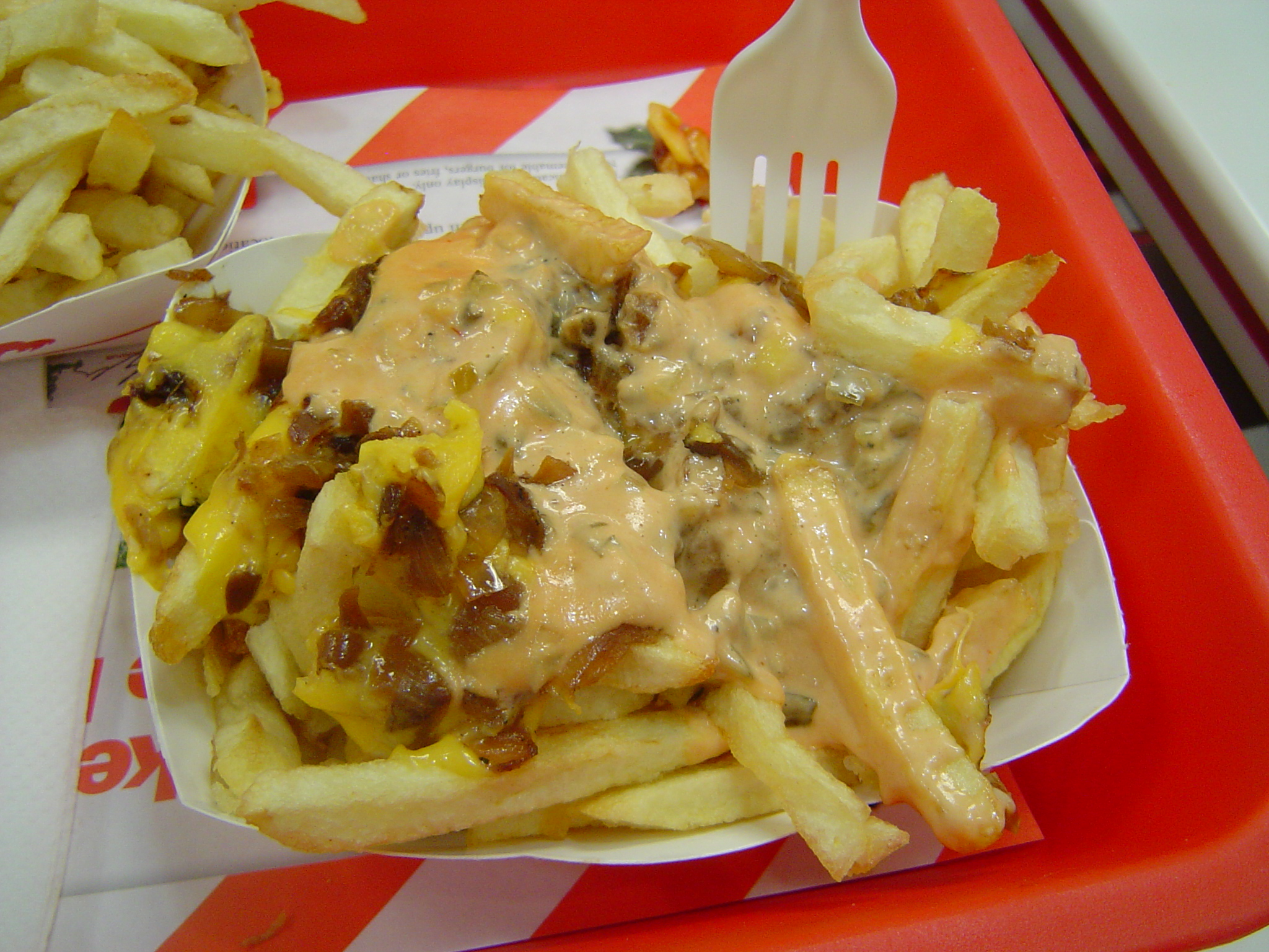 "Animal" consisting of cheese, grilled onions, and spread on a regular order of fries at In-N-Out Burger, part of the secret menu.